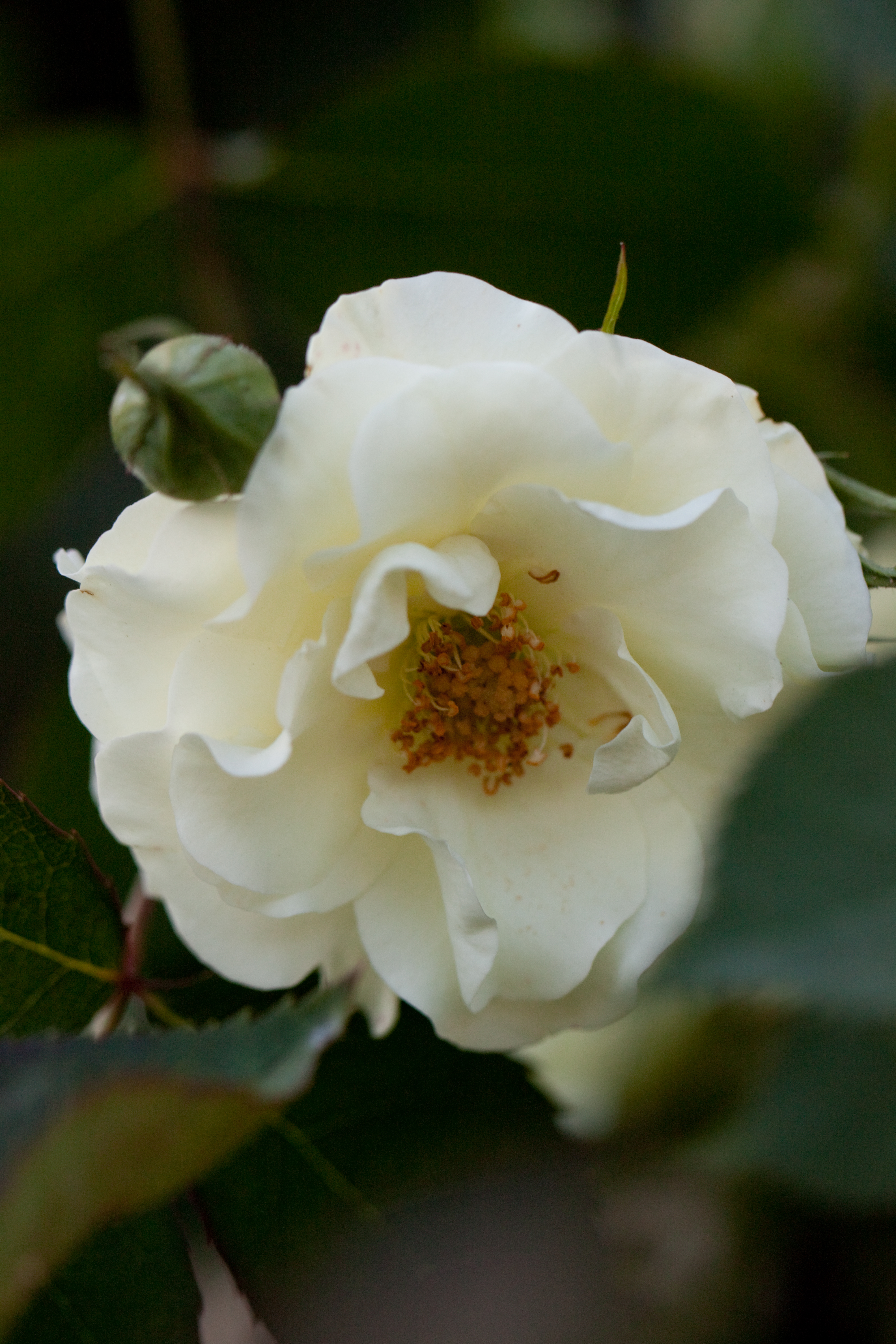 Ryokko. Production in Japan. 緑光。